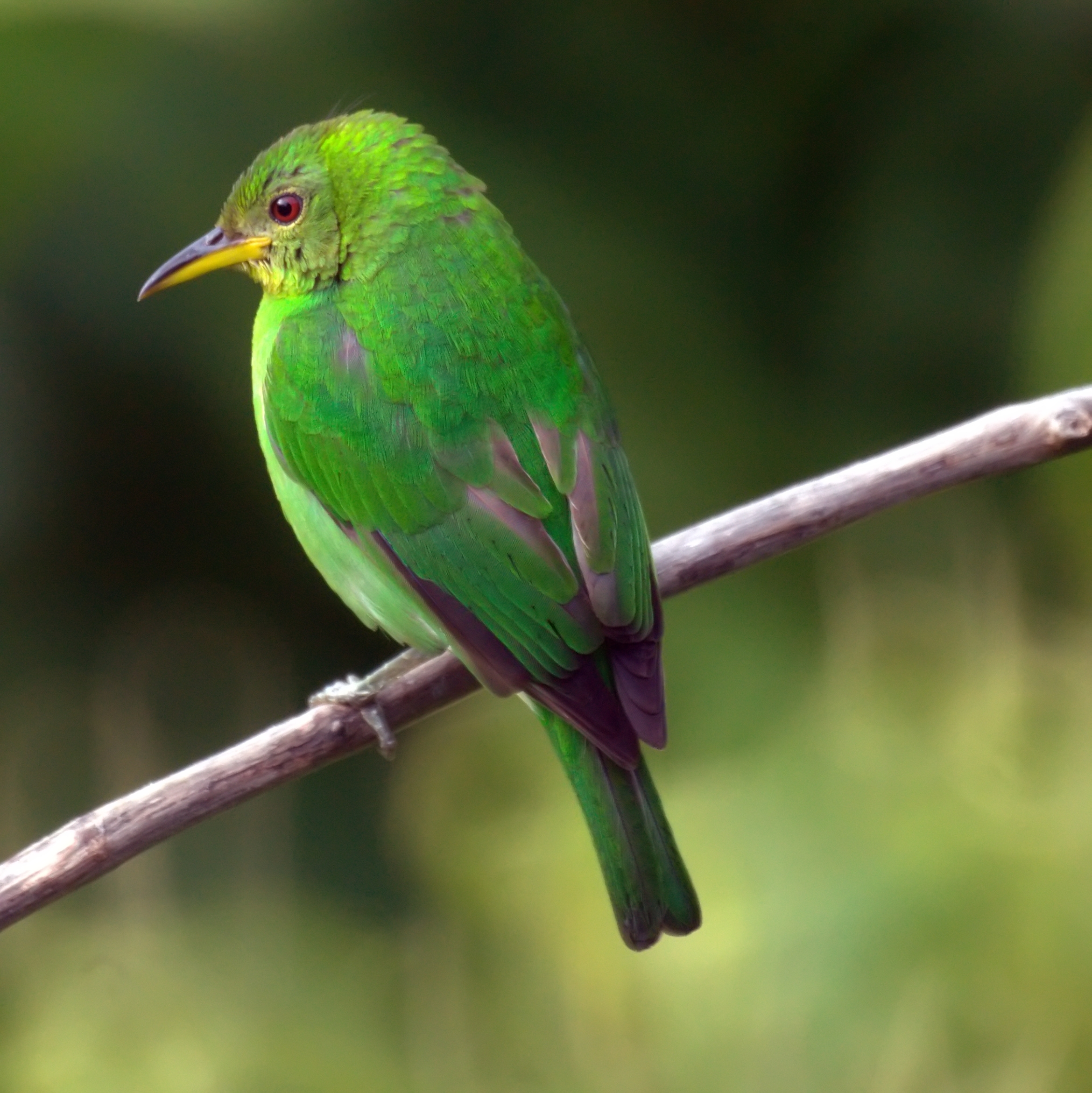 Chlorophanes spiza - Green Honeycreeper (female)